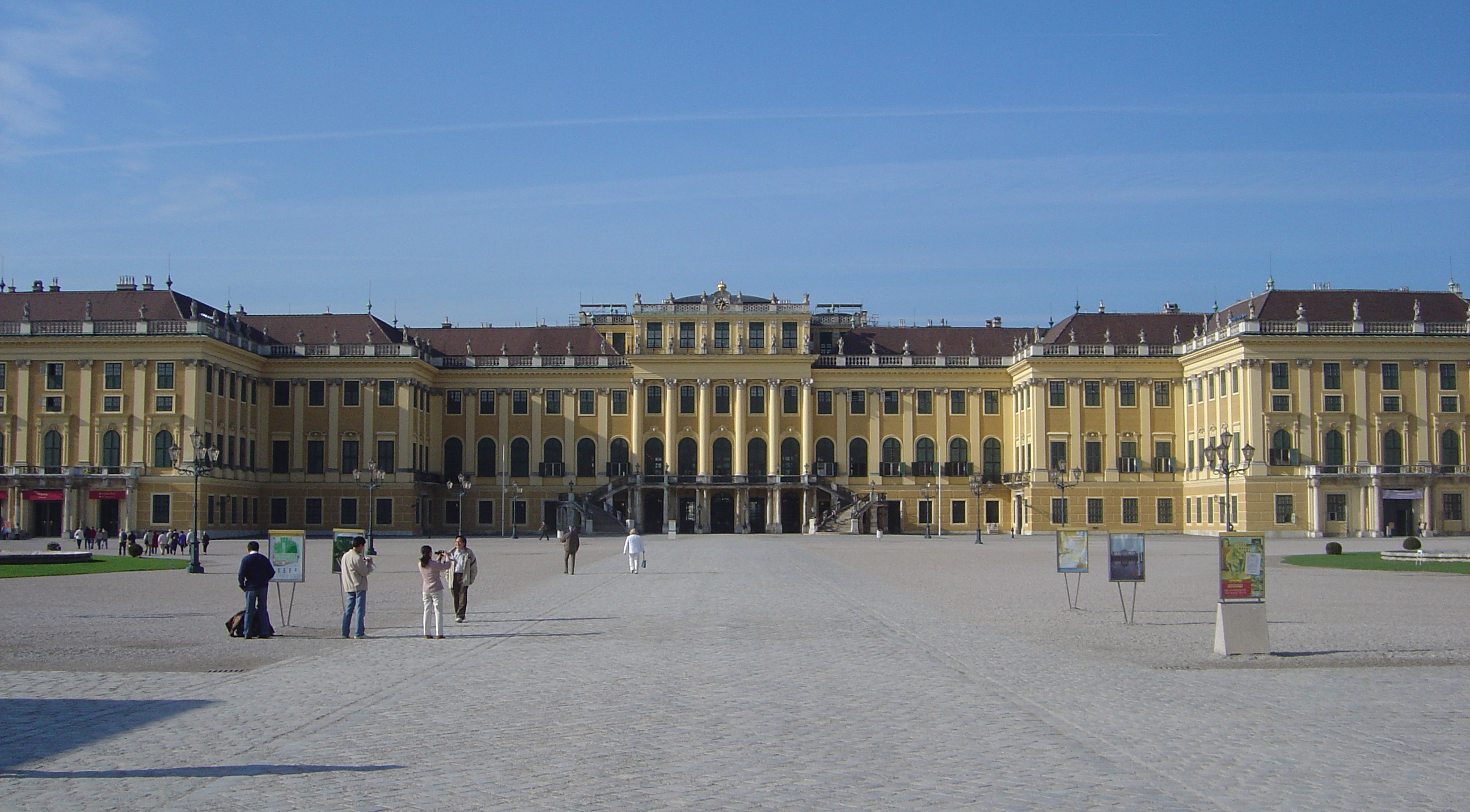 Austria, Vienna, Schönbrunn Palace